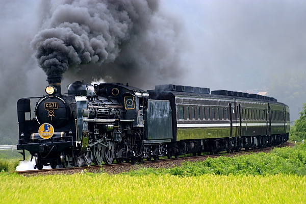 C571 "SL Yamaguchi" on the JR Yamaguchi Line between Tokusa and Funahirayama stations